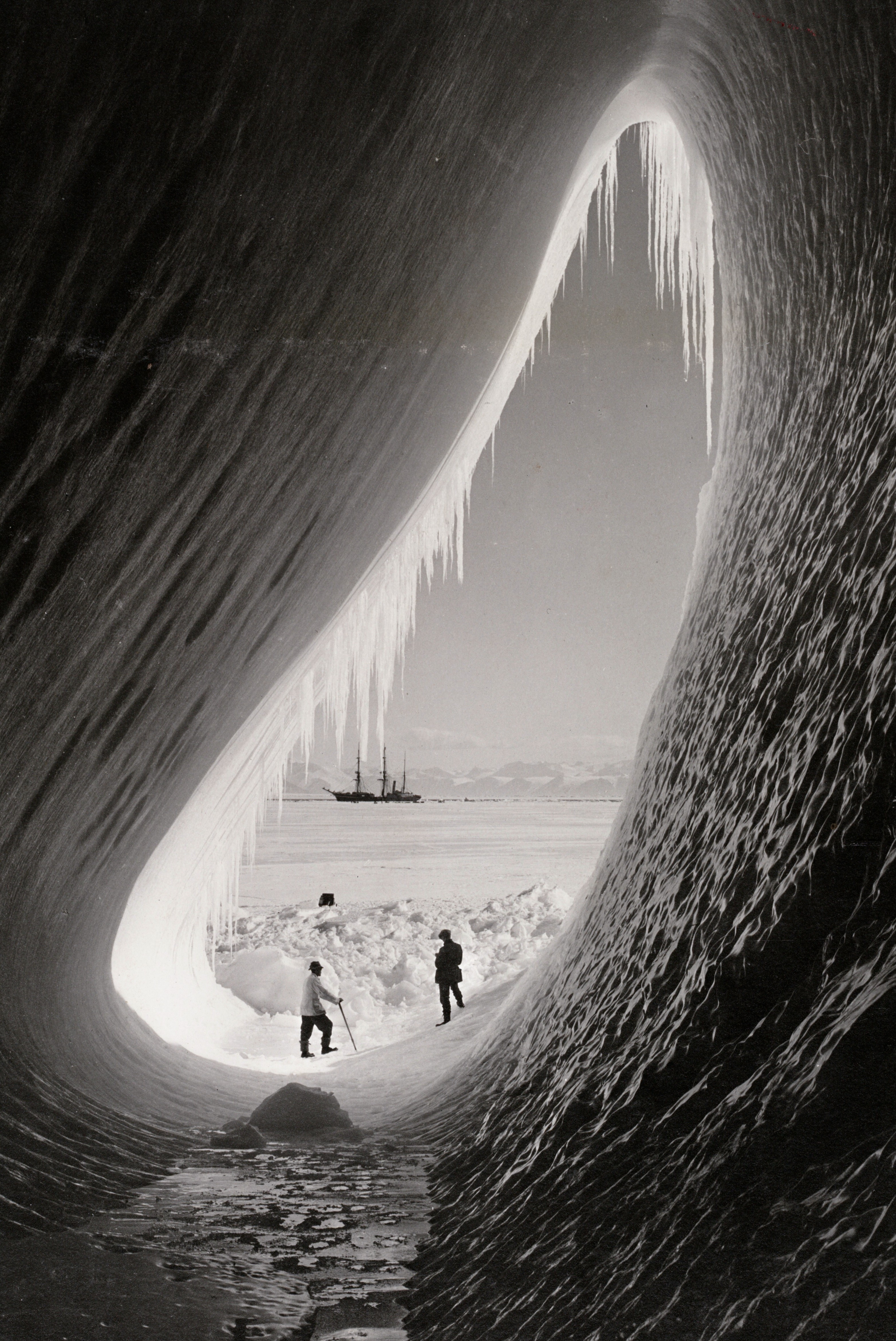 Grotto in an iceberg, photographed during the British Antarctic Expedition of 1911-1913, 5 Jan 1911